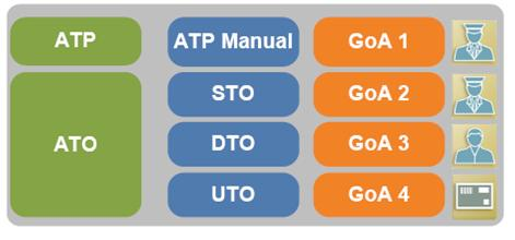 Level of automation (GoA as per IEC 62290-1) of the CITYFLO 650 CBTC solution from BOMBARDIER